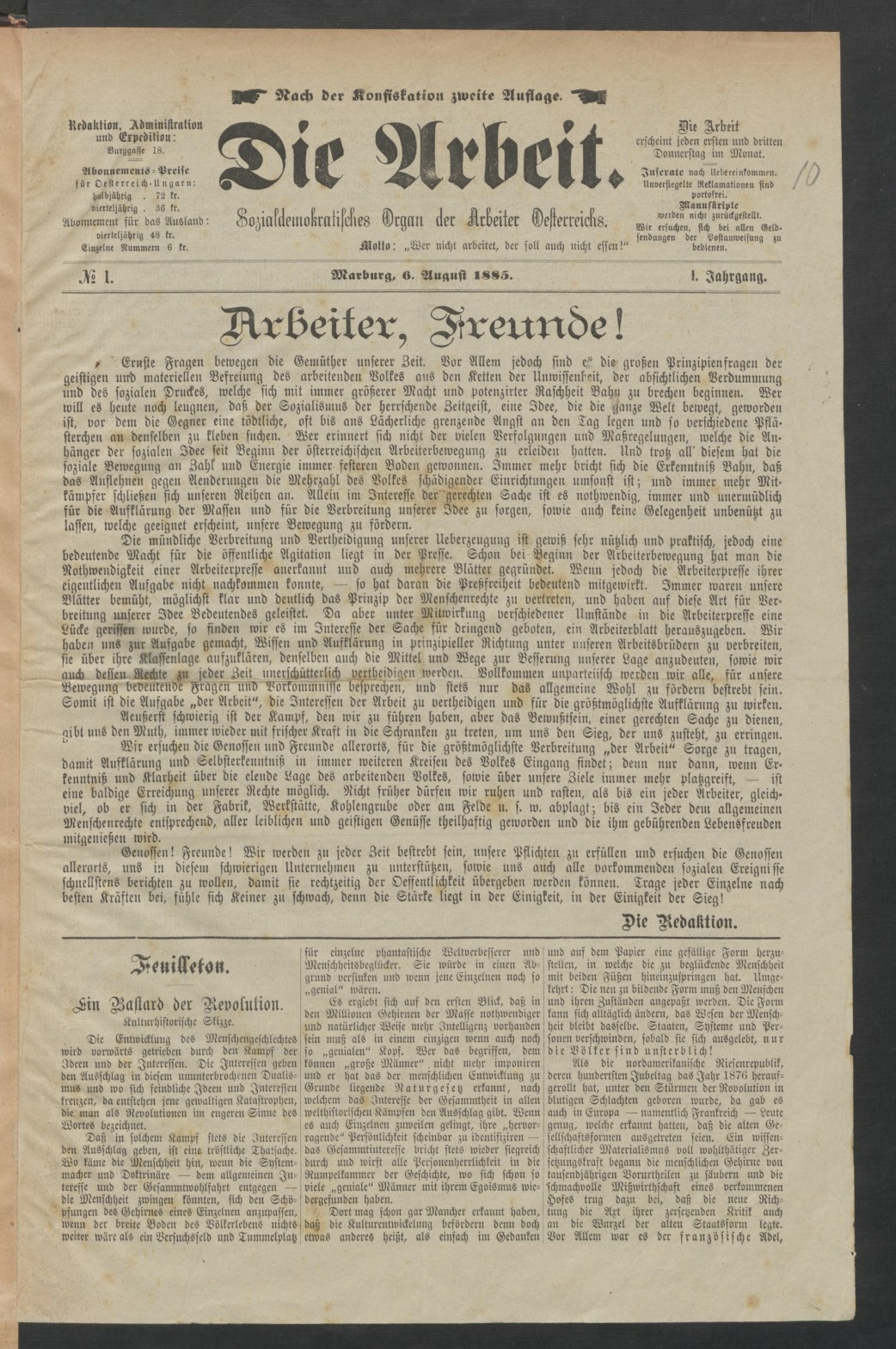 Die Arbeit (Austrian newspaper from 1885)